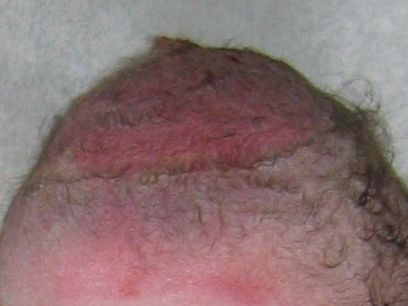 Bruising and deformation of the scalp caused by vacuum extraction. Child's scalp was fine in a week